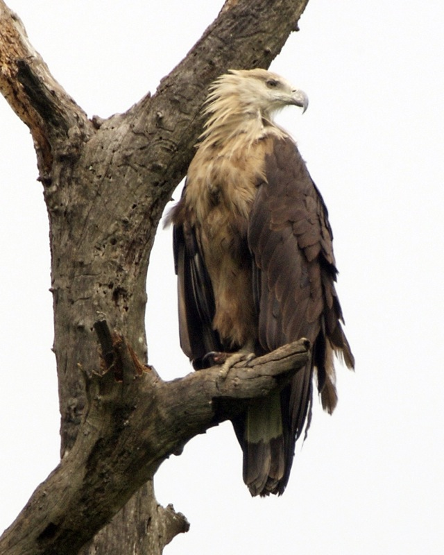 Pallas's Fish Eagle Haliaeetus leucoryphus (Bangla:Chil) Kazaringa, Assam, India April 15, 2008 Problem with taking pictures of birds of prey on their perch is the strong backlighting. Making an allowance of 2 stops brings the bird out but the background is rather drab. This is a case of making the best of a poor situation. Lens: 500mm with 2X adaptor